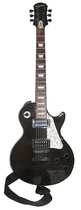 This image shows an electric guitar.